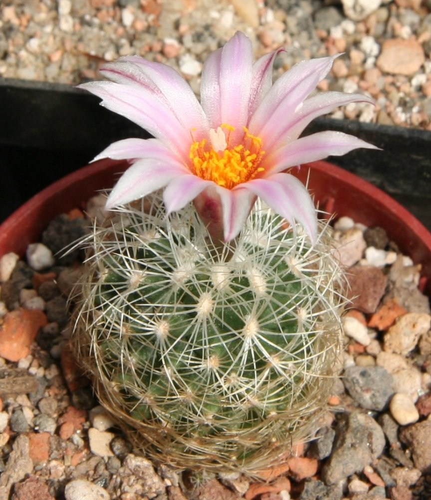 Turbinicarpus knuthianus in Blüte